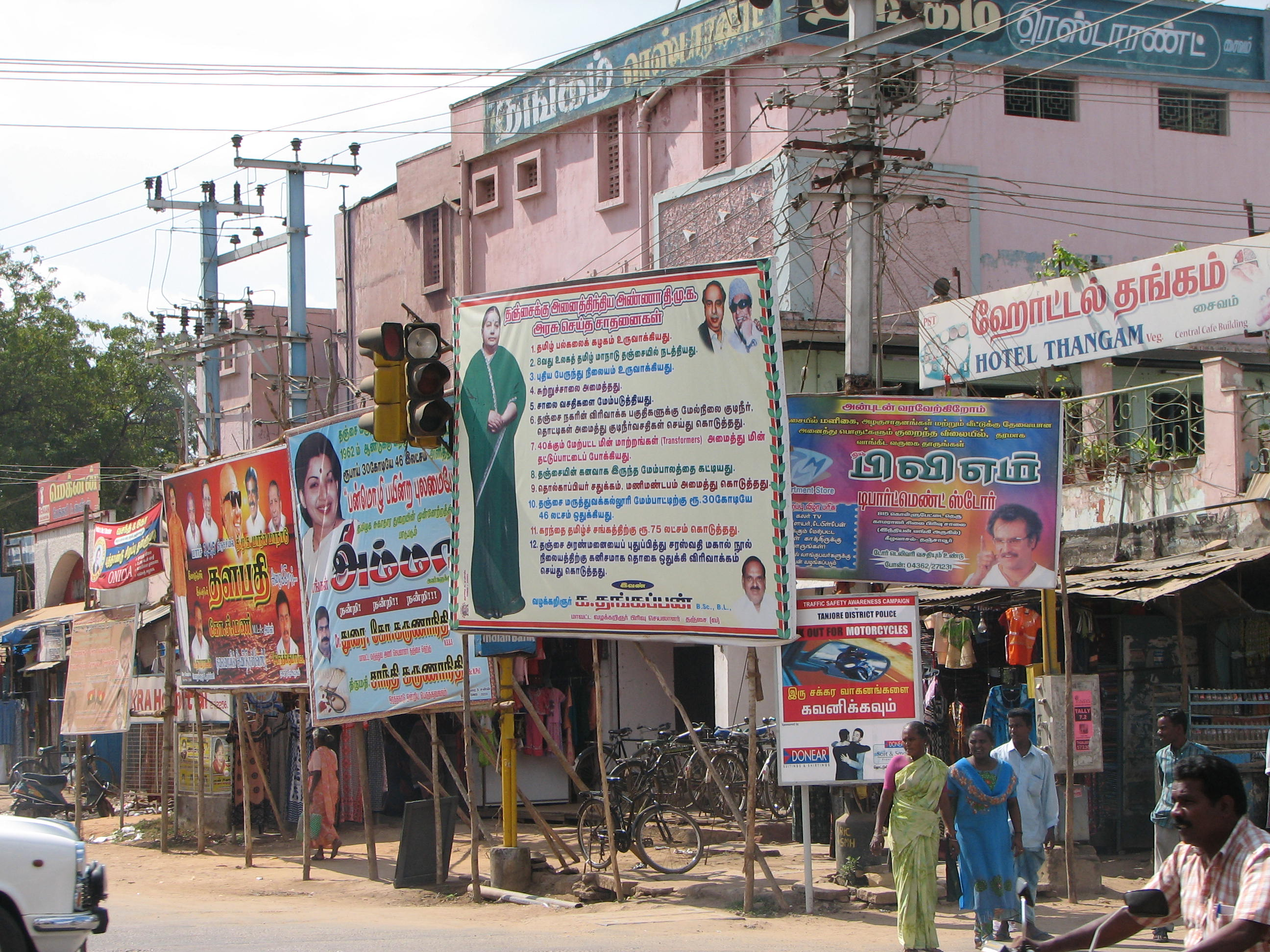 Thanjavur, India